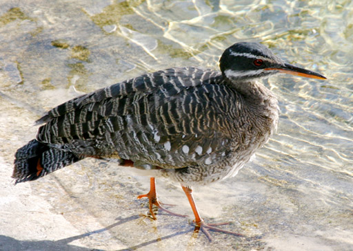 Sunbittern, Eurypyga helias, captive bird. Location: Jacksonville Zoo, Jacksonville, Florida, United States